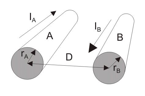 Calcualtion of inductance